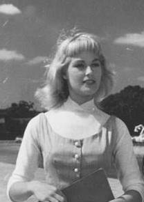 Screenshot of Yesterday Was Spring.